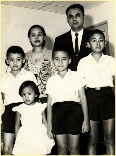 Captain Partono Parwitokusumo, his wife Sudiari, and four children: Darwanto, Budhiono, Hendi, and Indrarini